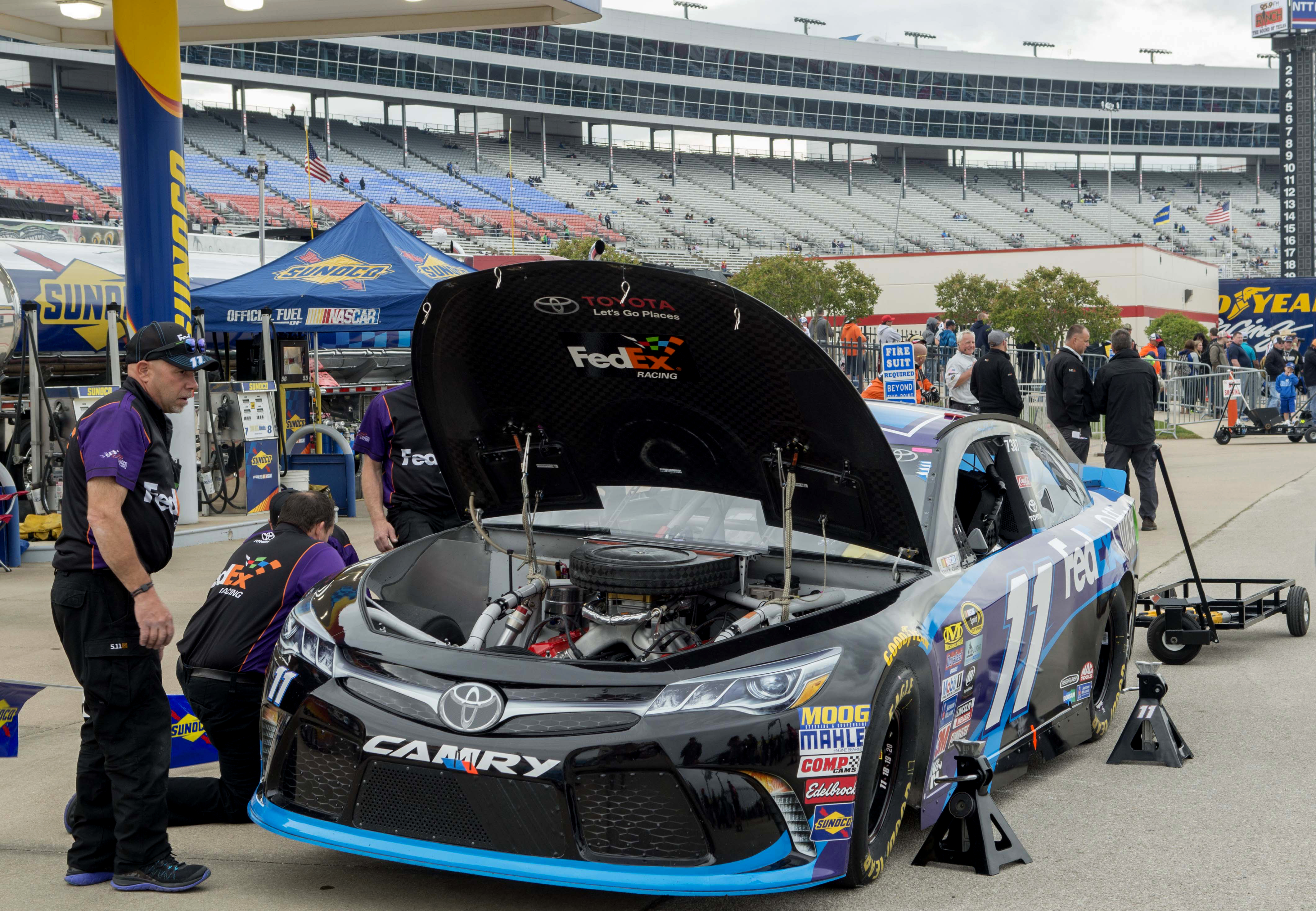 The number 11 car, driven by Denny Hamlin, is given a pre-race inspection April 9, 2016, at the Texas Motor Speedway, Fort Worth, Texas. U.S. Air Force Gen. David L. Goldfein, United States Air Force vice chief of staff attended the race to administer the oath of enlistment to a group of fourteen men and women in the Air Force Delayed Entry Program. (U.S. Air Force photo by Airman 1st Class Austin Mayfield/Released)